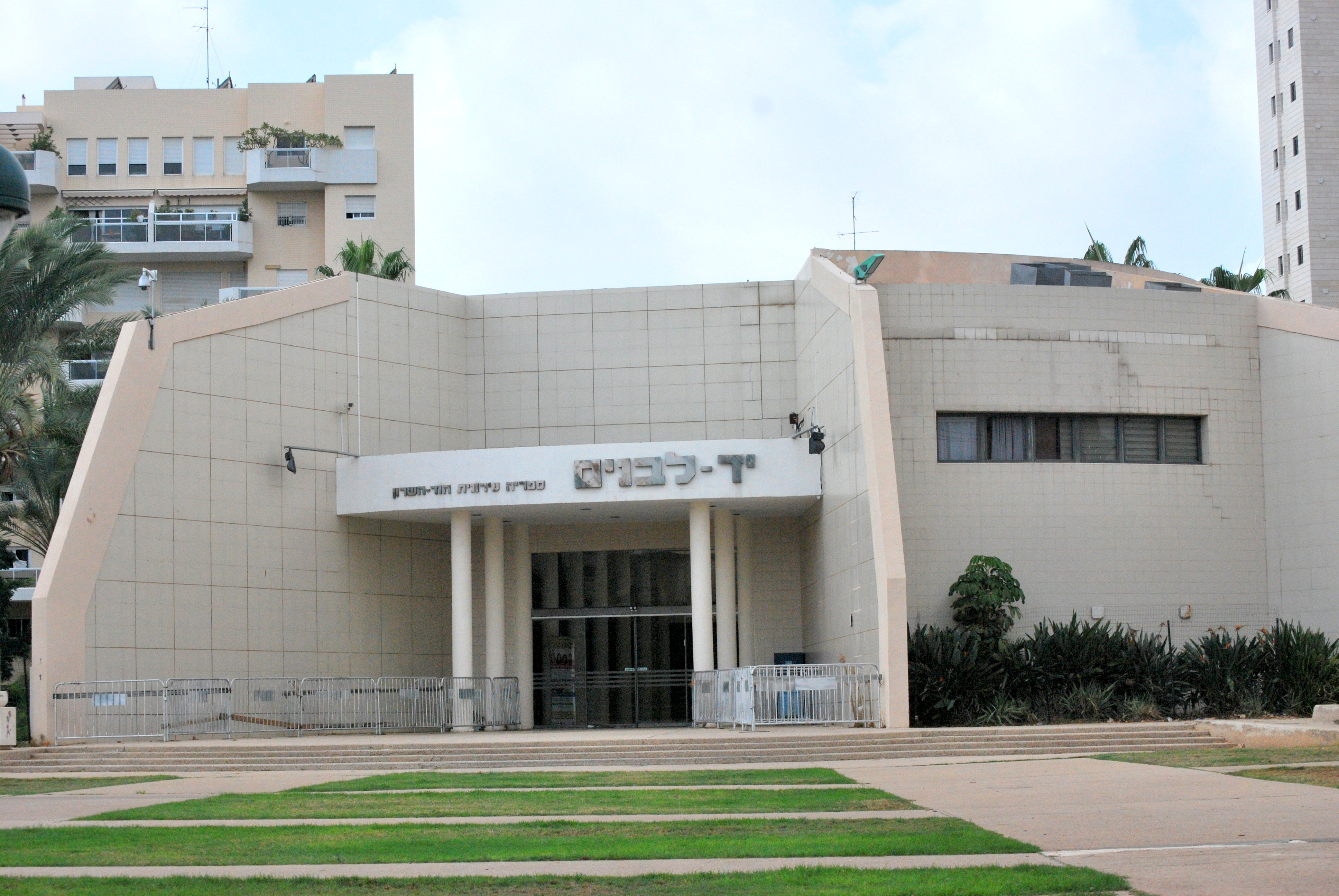 The Yad Labanim building in Hod HaSharon, Israel.